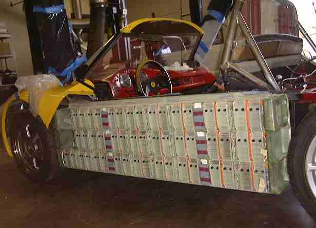 The new Li-ion battery pack. Each of the 100 modules consists of 68 18650 laptop cells. For AC Propulsion tzero.